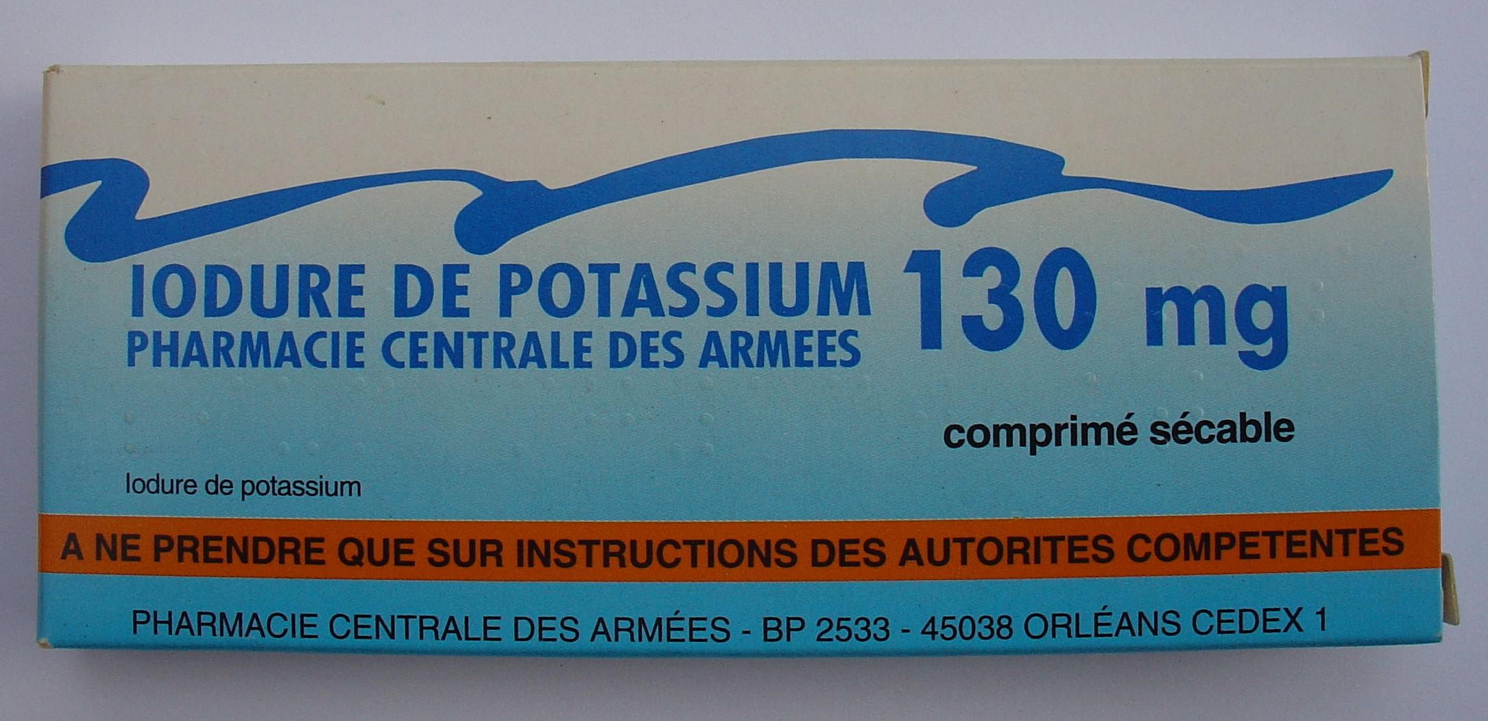 Potassium Iodide nukepills from France. Given by army's pharmacy to people living near a nuclear place